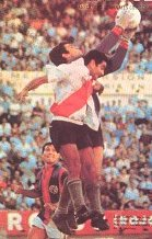 Image of Luis Cubilla playing for River Plate,cropped from a web image of a laminated poster from a magazine